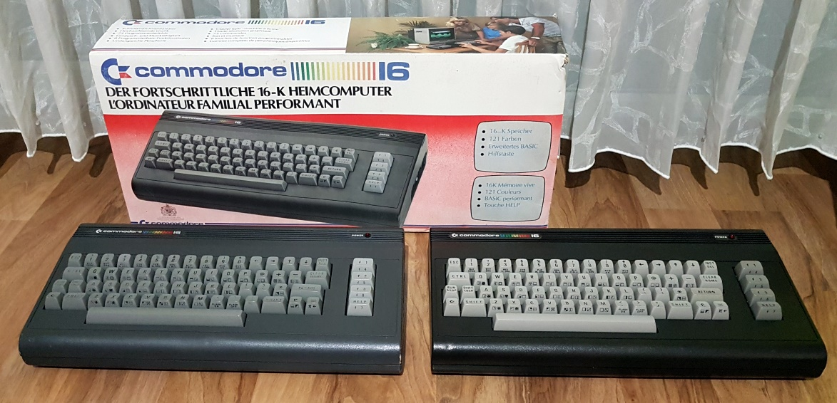 Commodore 16 original packaging, in front on the left a prototype of the Commodore 16, on the right next to it a series device of the Commodore 16 with a dark housing